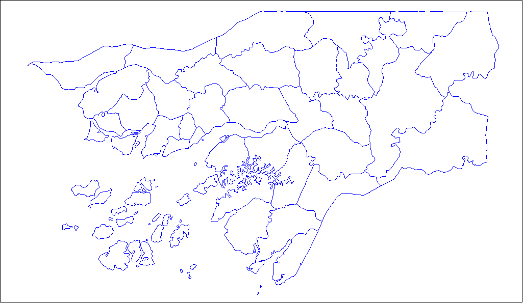 This map has been uploaded by Electionworld from to enable the Wikimedia Atlas of the World . Original uploader to was Rarelibra, known as Rarelibra at . Electionworld is not the creator of this map. Licensing information is below. Map of the sectors of Guinea-Bissau. Created by Rarelibra 16:24, 27 April 2006 (UTC) for public domain use. Created using MapInfo Professional v7.5 and various mapping resources.